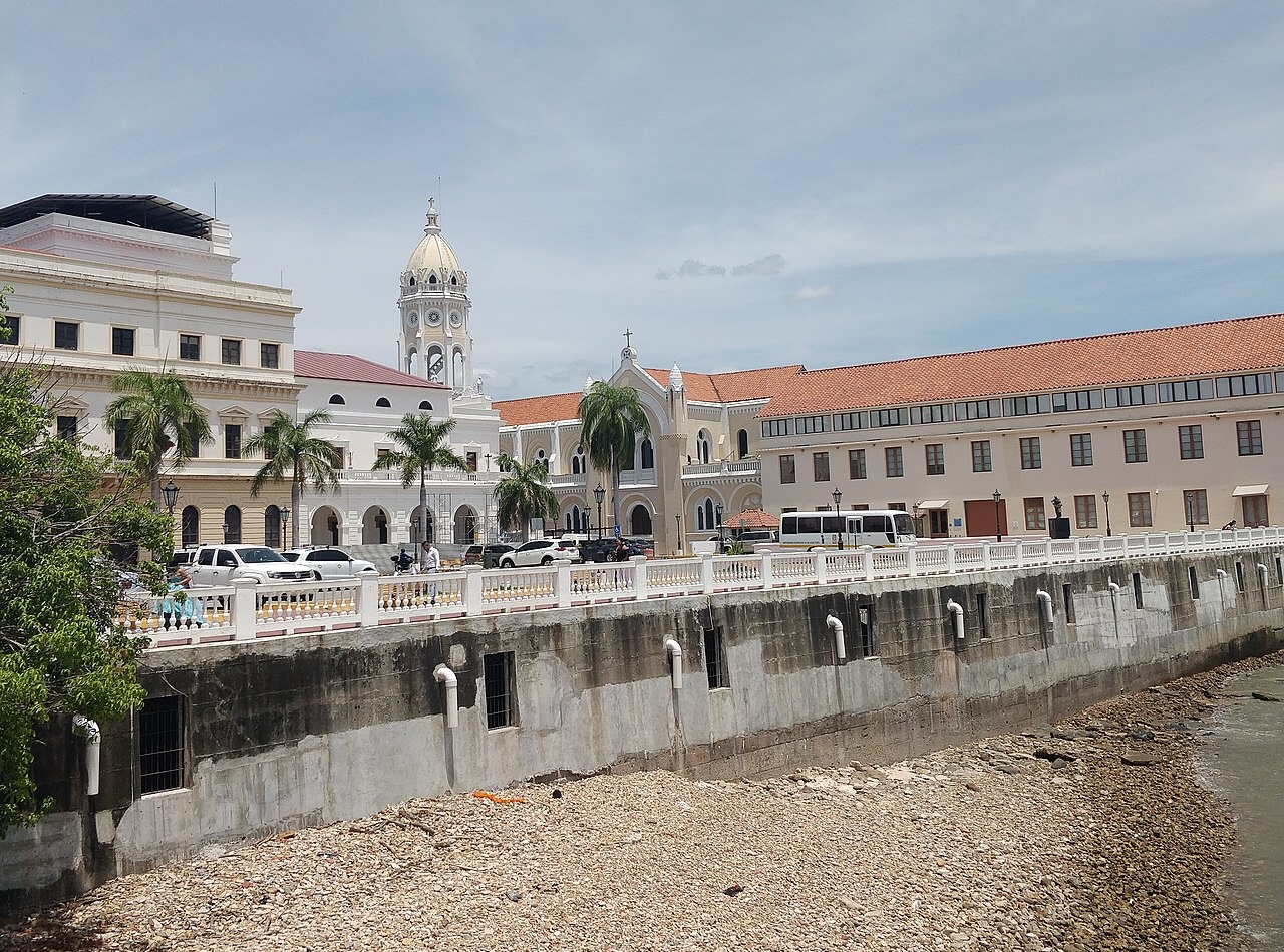 View of the National theather of Panama and St Francis church in the old quarter of panama